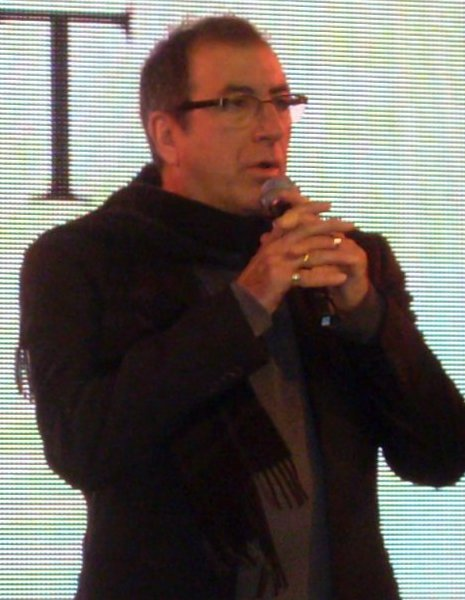 Kenny talks to the fans at This Is It launch in HMV London, Feb 2010